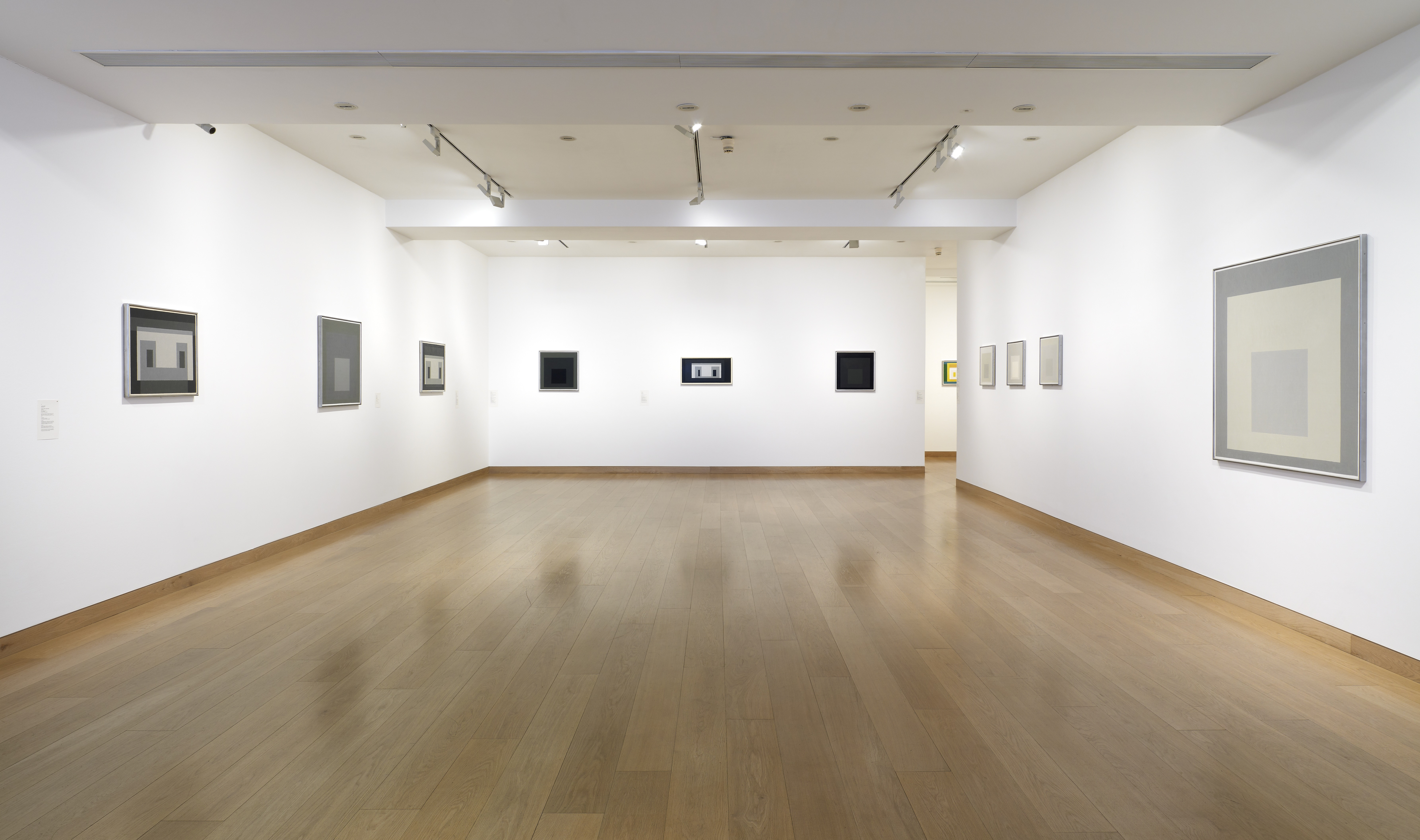 Josef Albers: Black and White, Exhibition View at Waddington Custot, London, 2014